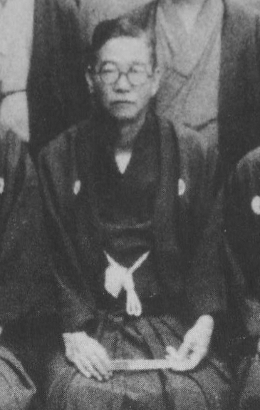 Tatsunosuke Kanda (Shogi players). taken in 1939.